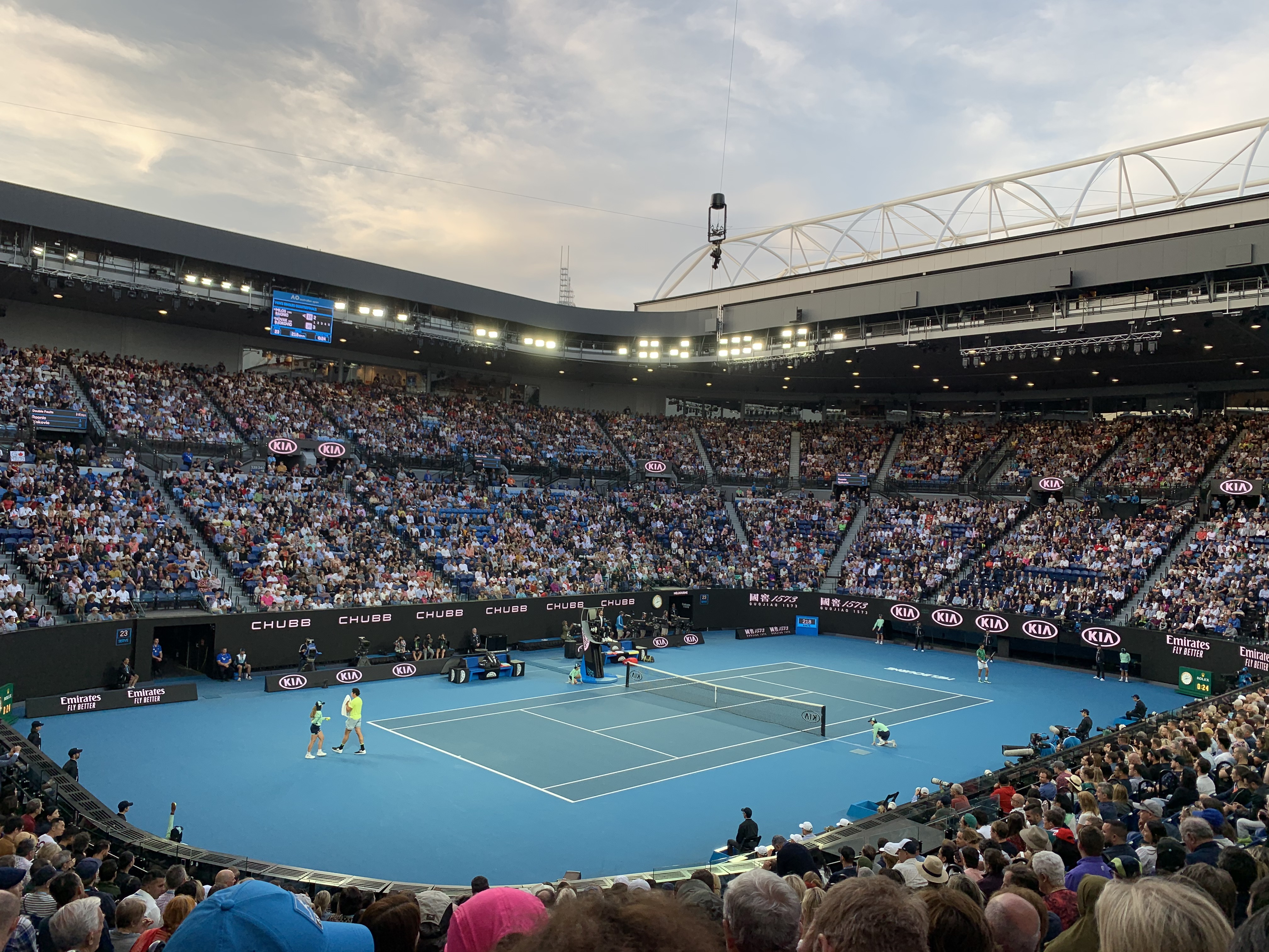 Novak Djockovic plays against Milos Raonic on Rod Laver arena in the mens Quarter-final at the Australian Open on the 28th January 2020